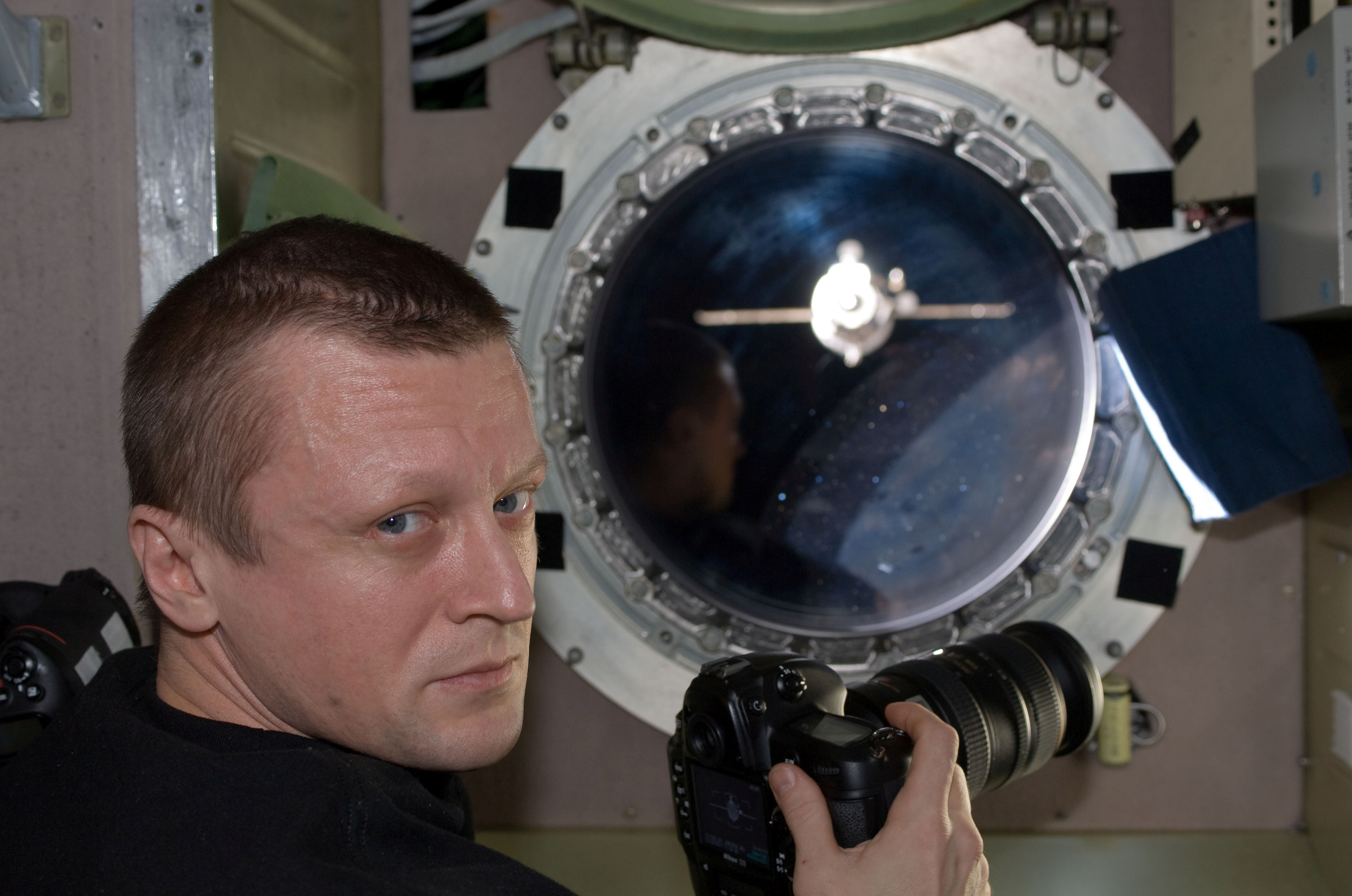 Russian cosmonaut Dmitry Kondratyev, Expedition 27 commander, is pictured near a window in the Zvezda Service Module of the International Space Station while photographing the departure of the unpiloted ISS Progress 41 supply vehicle.